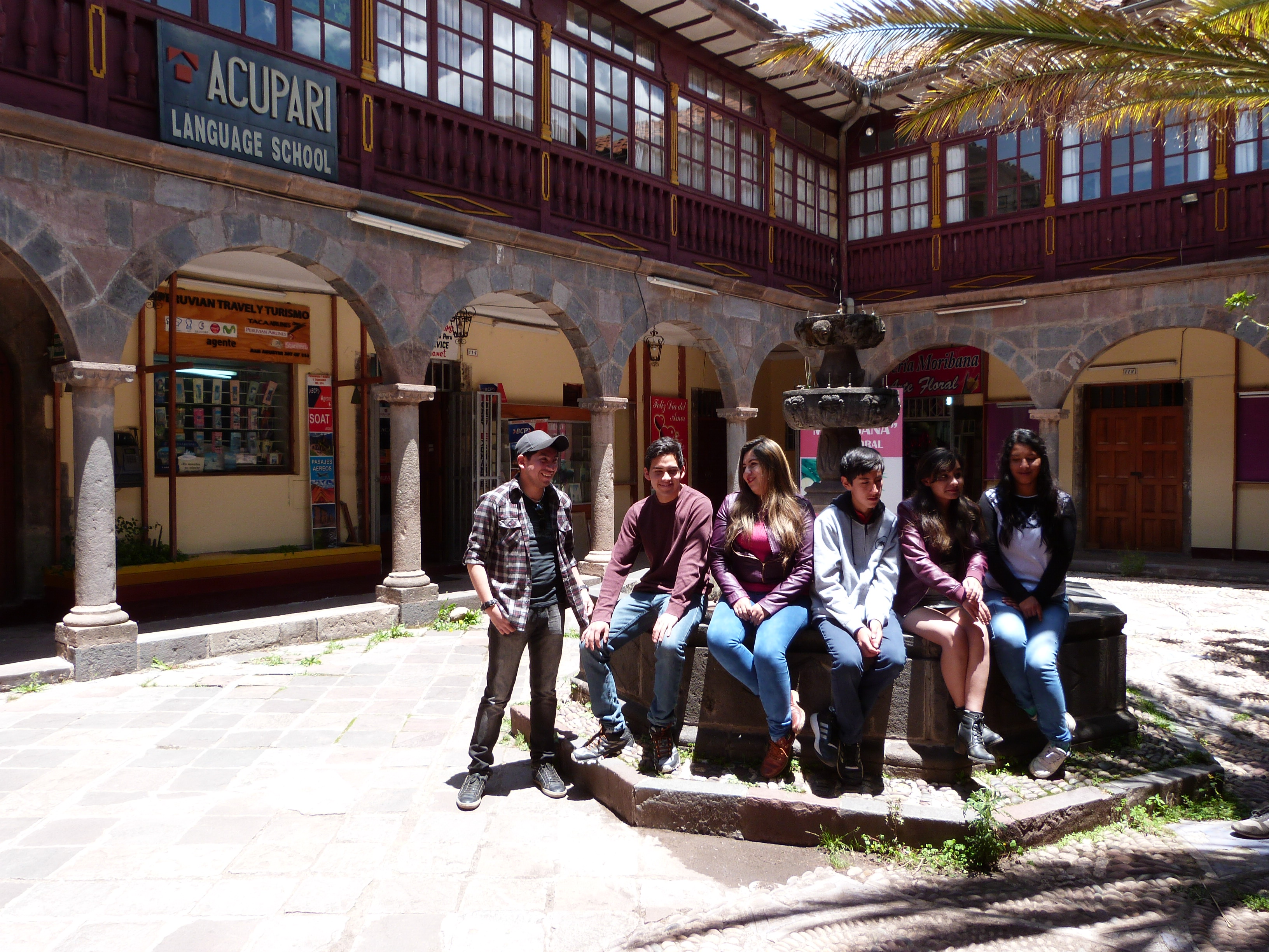 Patio with students